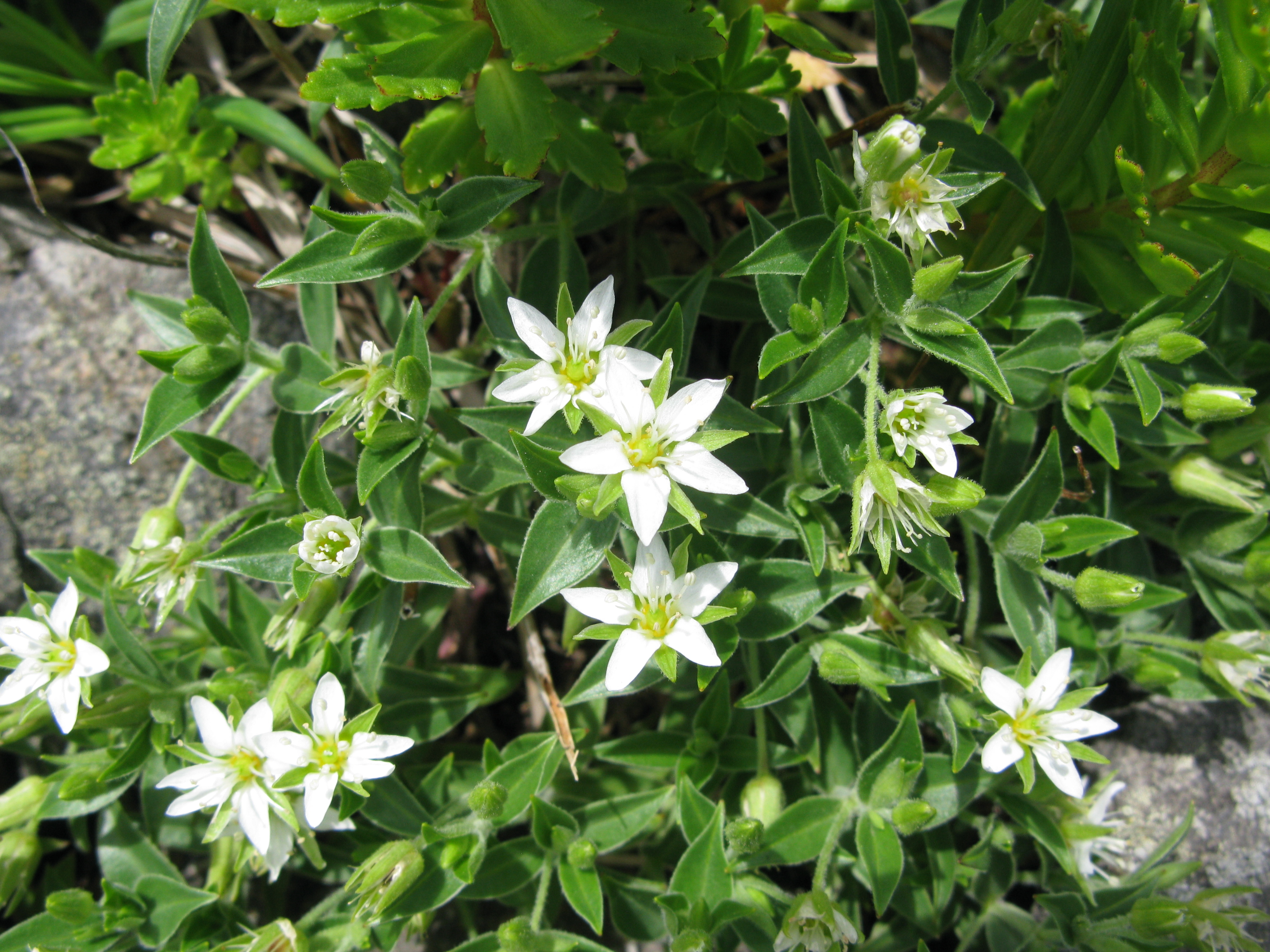 Arenaria merckioides var. chokaiensis, Mount Chōkai, Yamagata pref., Japan